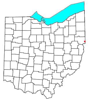 Locator map of the unincorporated community of Fredericktown in Columbiana County, Ohio, United States.